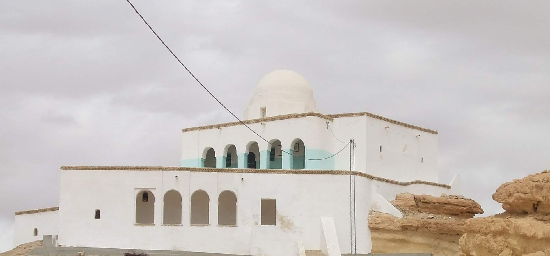 Qubba Sidi Bu Hilal - قبة سيدي بو هلال, shrine in Jabal Bu Hilal (جبل سيدي بو هلال), in Dagash - دقاش - Degache, Tuzar - توزر - Tozeur, Tunisia - 34° 2' 6.05" N, 8° 16' 50.92" E